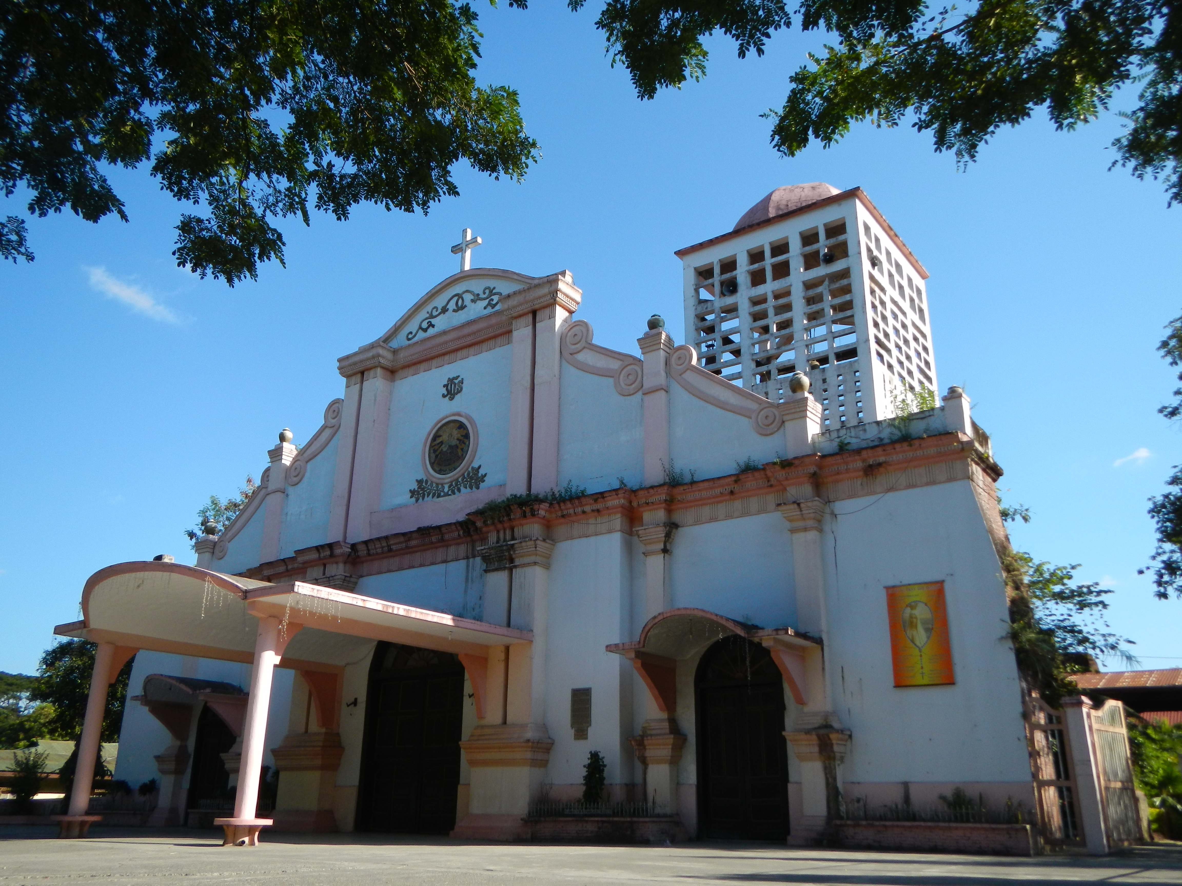 1841 Parish of the Holy Child Church, [1] (Roman Catholic Archdiocese of Lingayen-Dagupan[2]) Binalonan, Pangasinan[3]